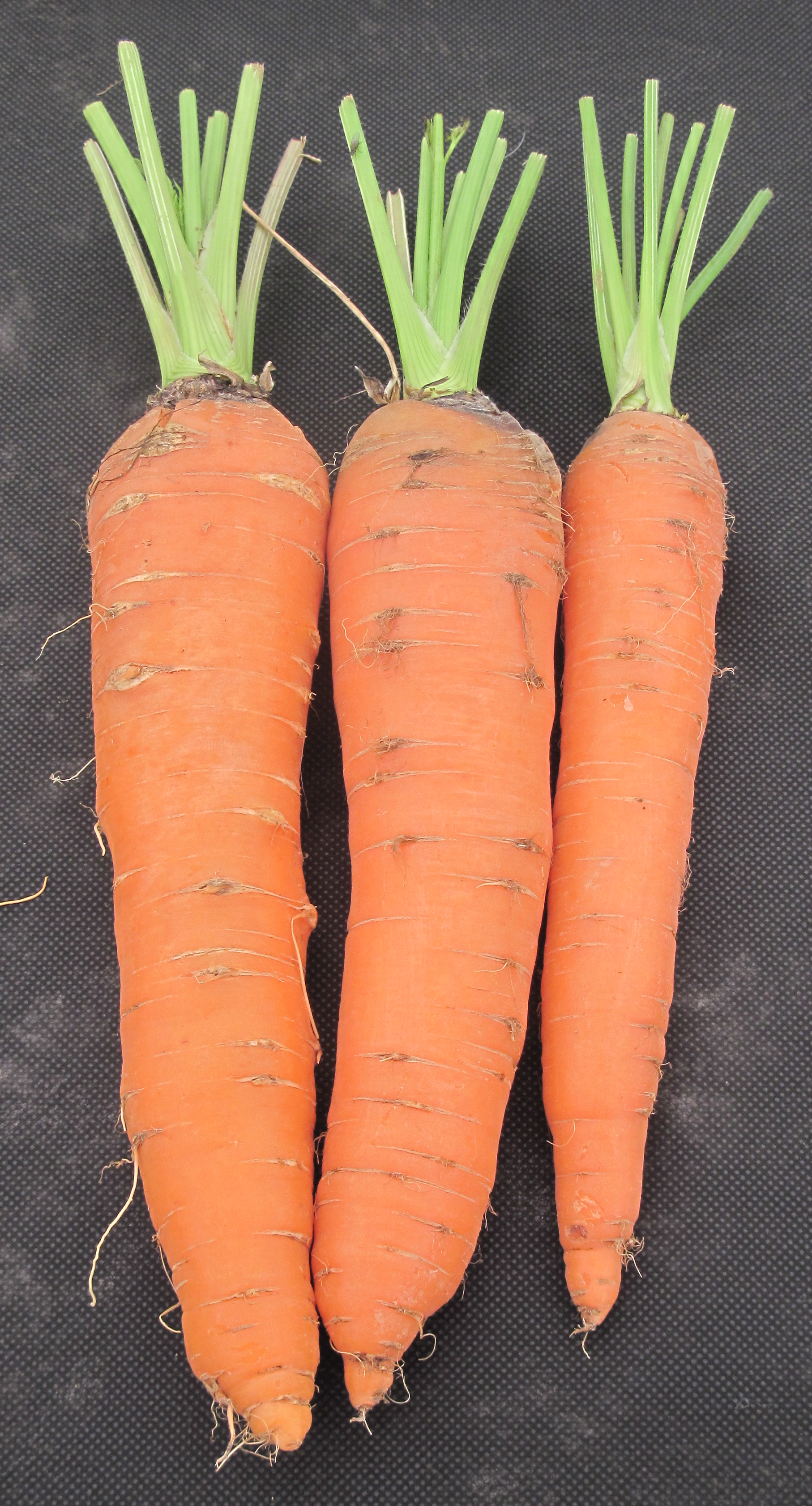 West Show, Jersey, 10-11 July 2010